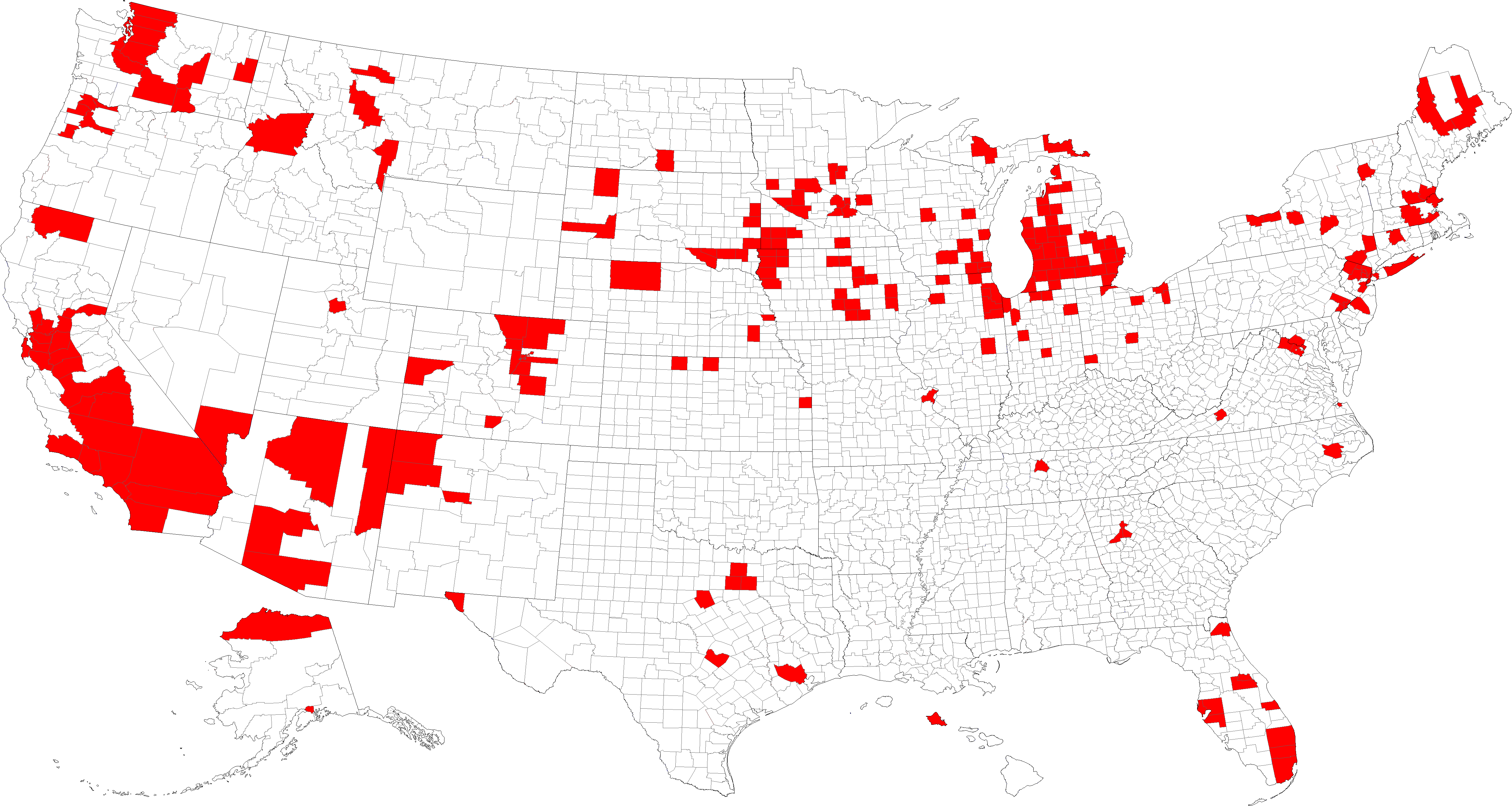 The counties shaded in red have at least one congregation of the Christian Reformed Church in North America